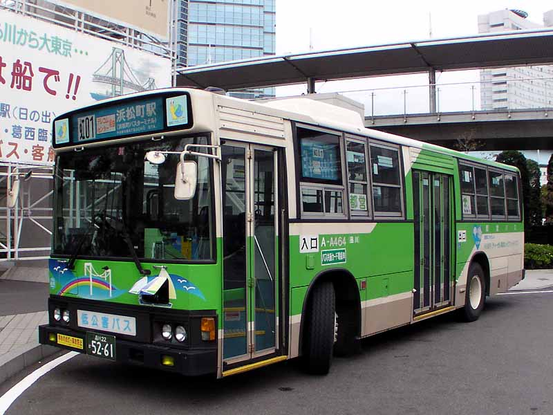 Hino Blue Ribbon electric hybrid bus "HIMR" (U-HT2MLAH). License plate: TKS22 KA5261（品川22か5261） Place: Tokyo Big Sight: Ariake, Koto ward, Tokyo Japan